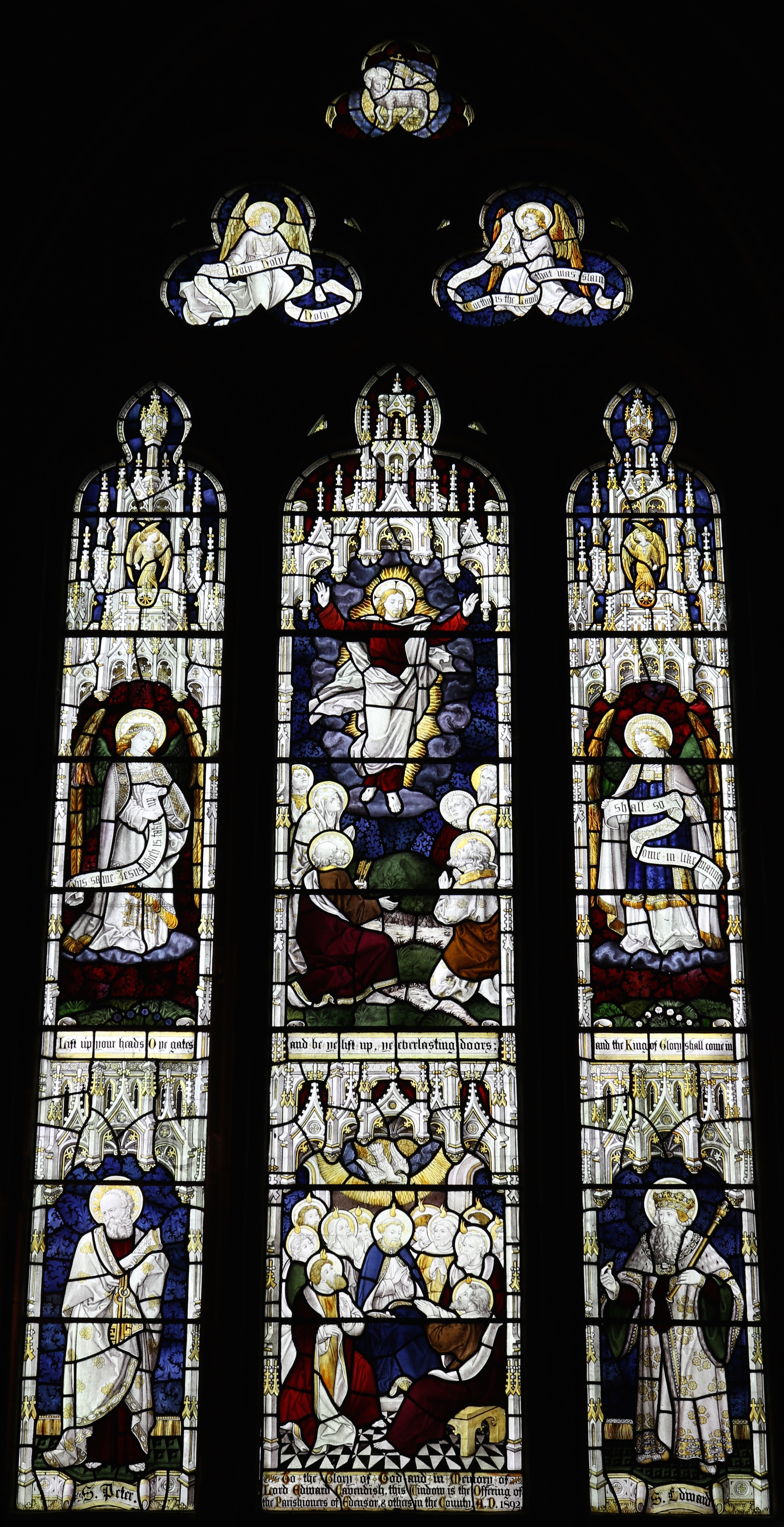 East window in Edensor church. Burlison & Grylls, 1892